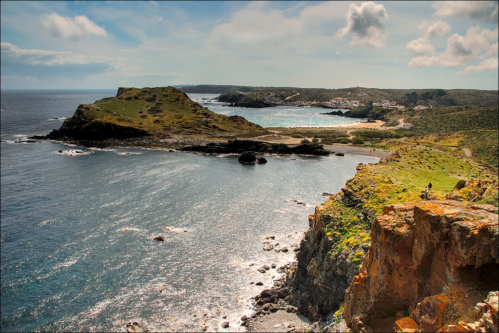 Camí de Cavalls 1 (Maó – Es Grau): Around sa Mesquida, sa Raconada Vella and es Pa Gros. Sa Raconada Vella (the Old Corner) is the pebble beach, Es Pa Gros (the Big Loaf of Bread) is the hill on the left. The little village of Sa Mesquida is in the distance. This environment has not changed significantly since I took this picture.